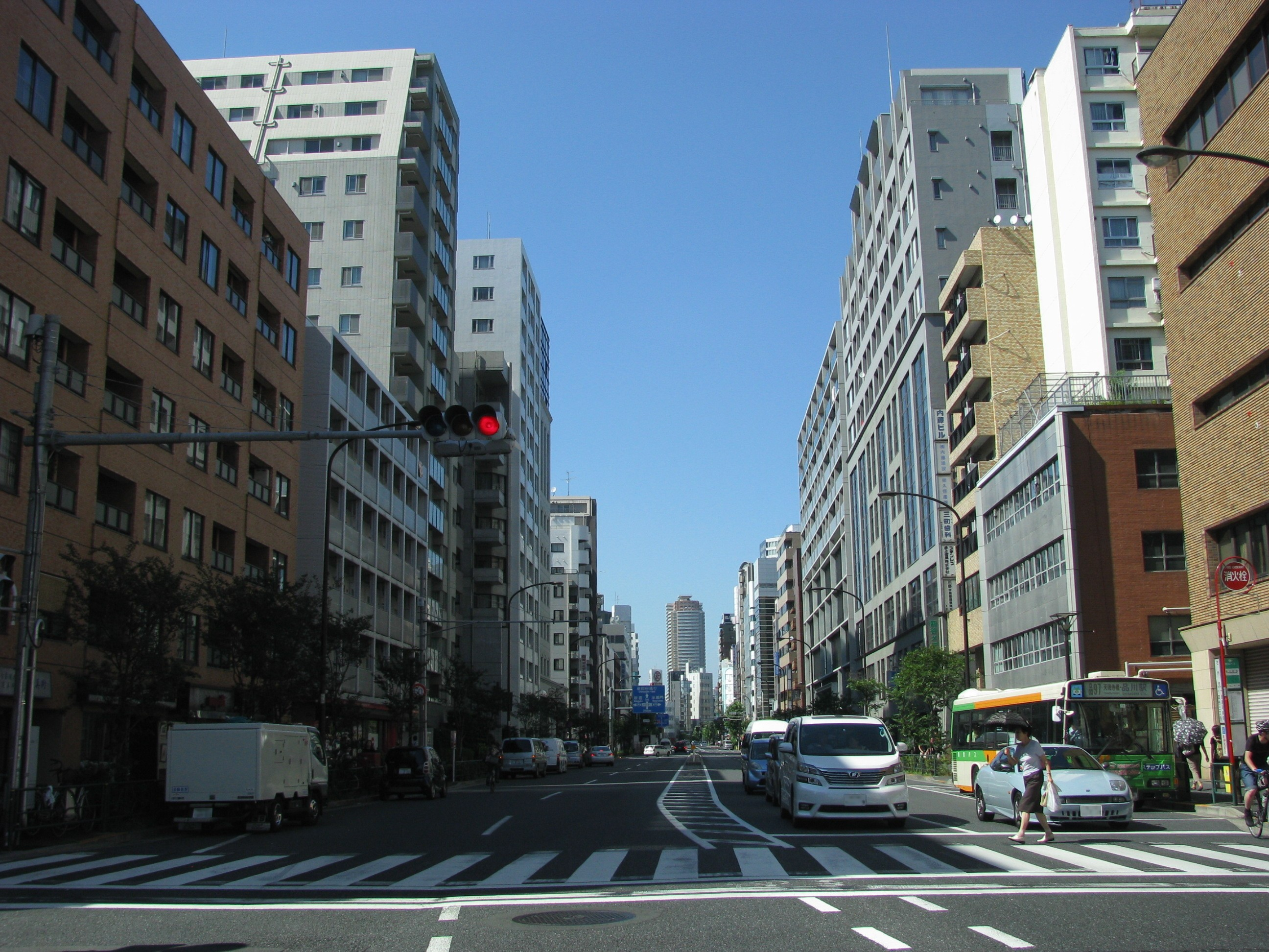 The Tokyo Prefectural Route 319. This location is Samon-chō (Yotsuya area) in Shinjuku, Tokyo, Japan.